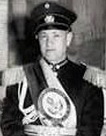 Gral. Gustavo Rojas Pinilla, President of the Republic of Colombia (1953 -1957)